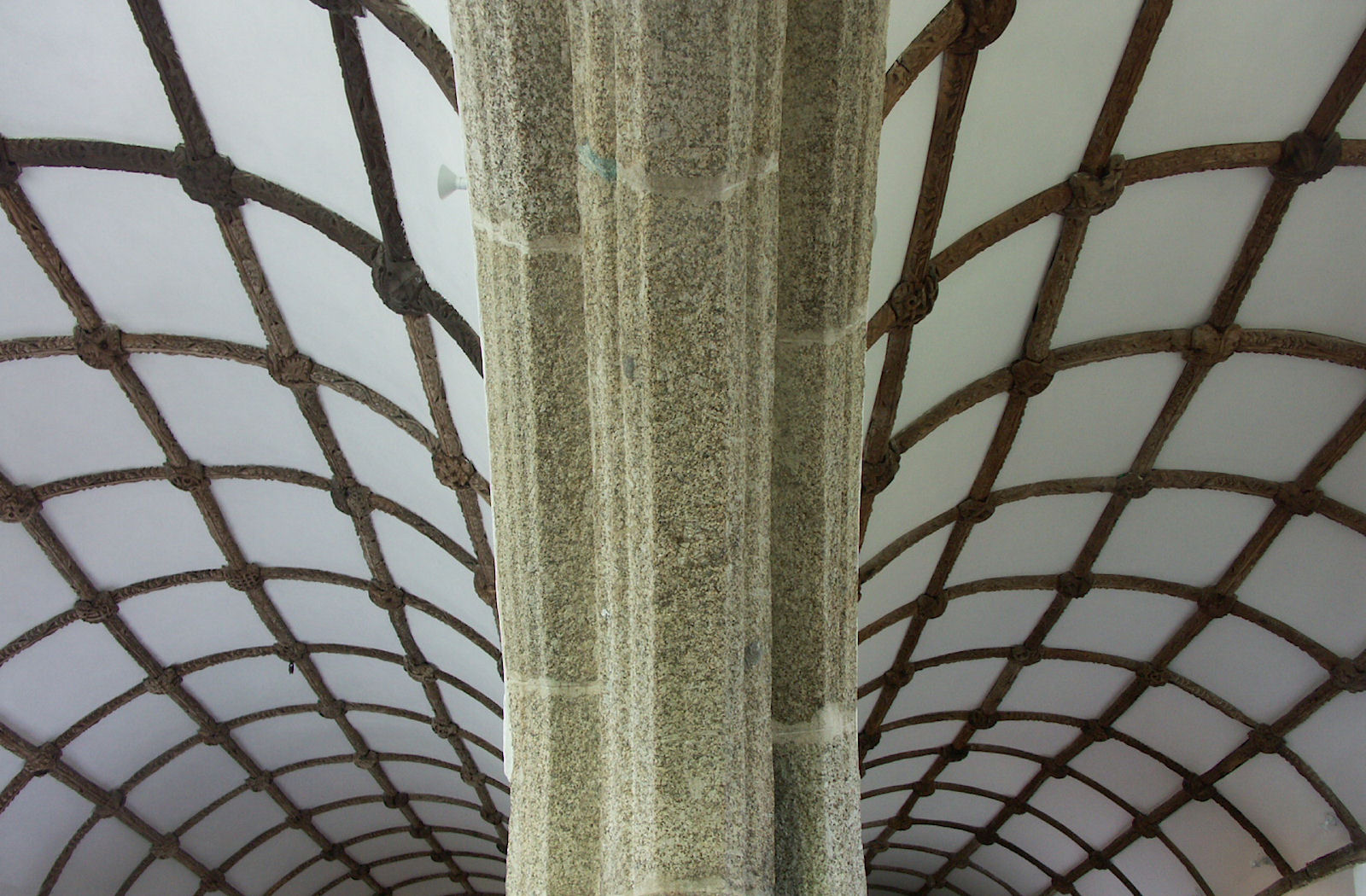 St. Samson's Church, Golant, Cornwall, England